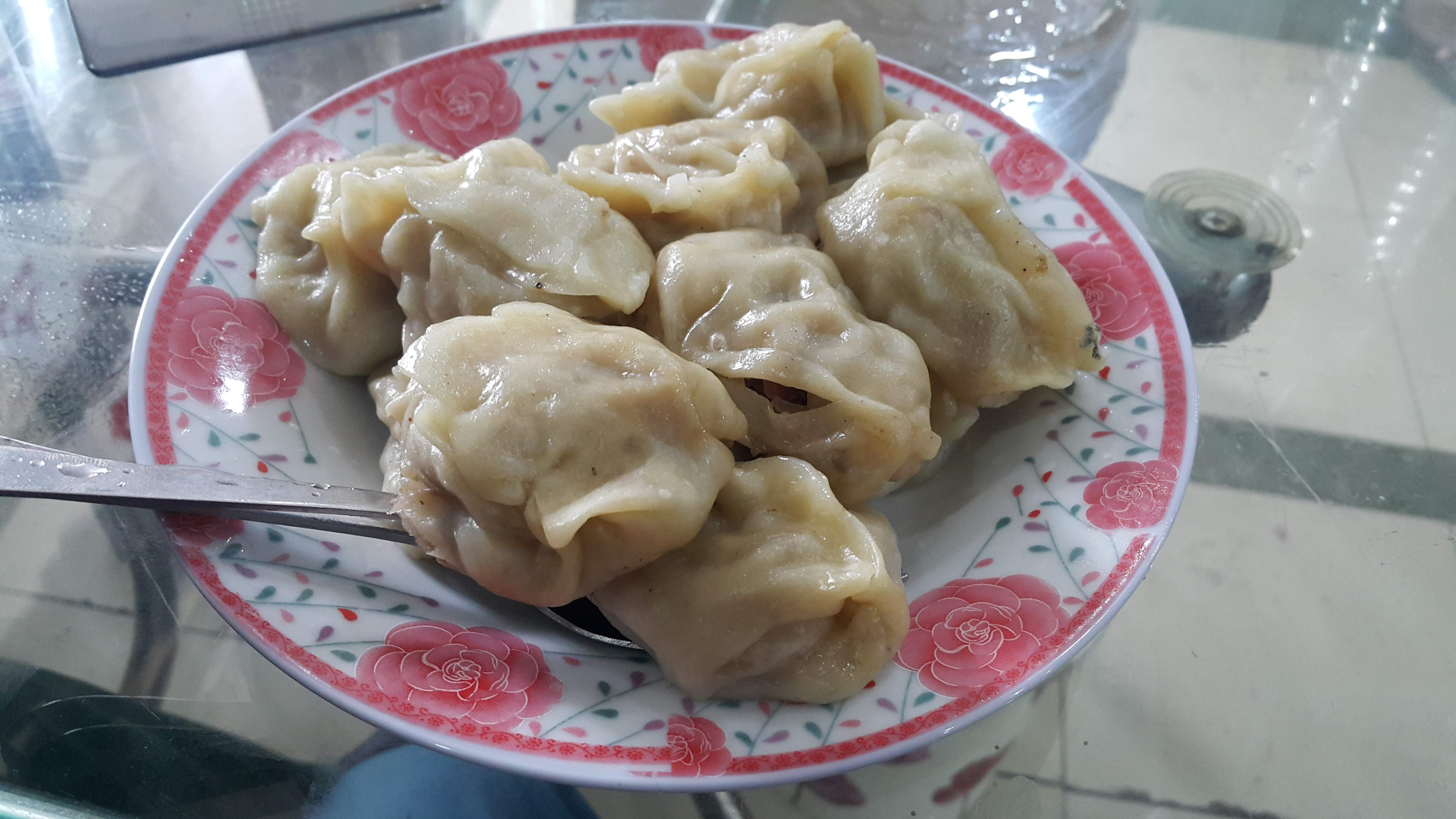 Dumplings also known as Manto is a widely eaten dish in Gilgit